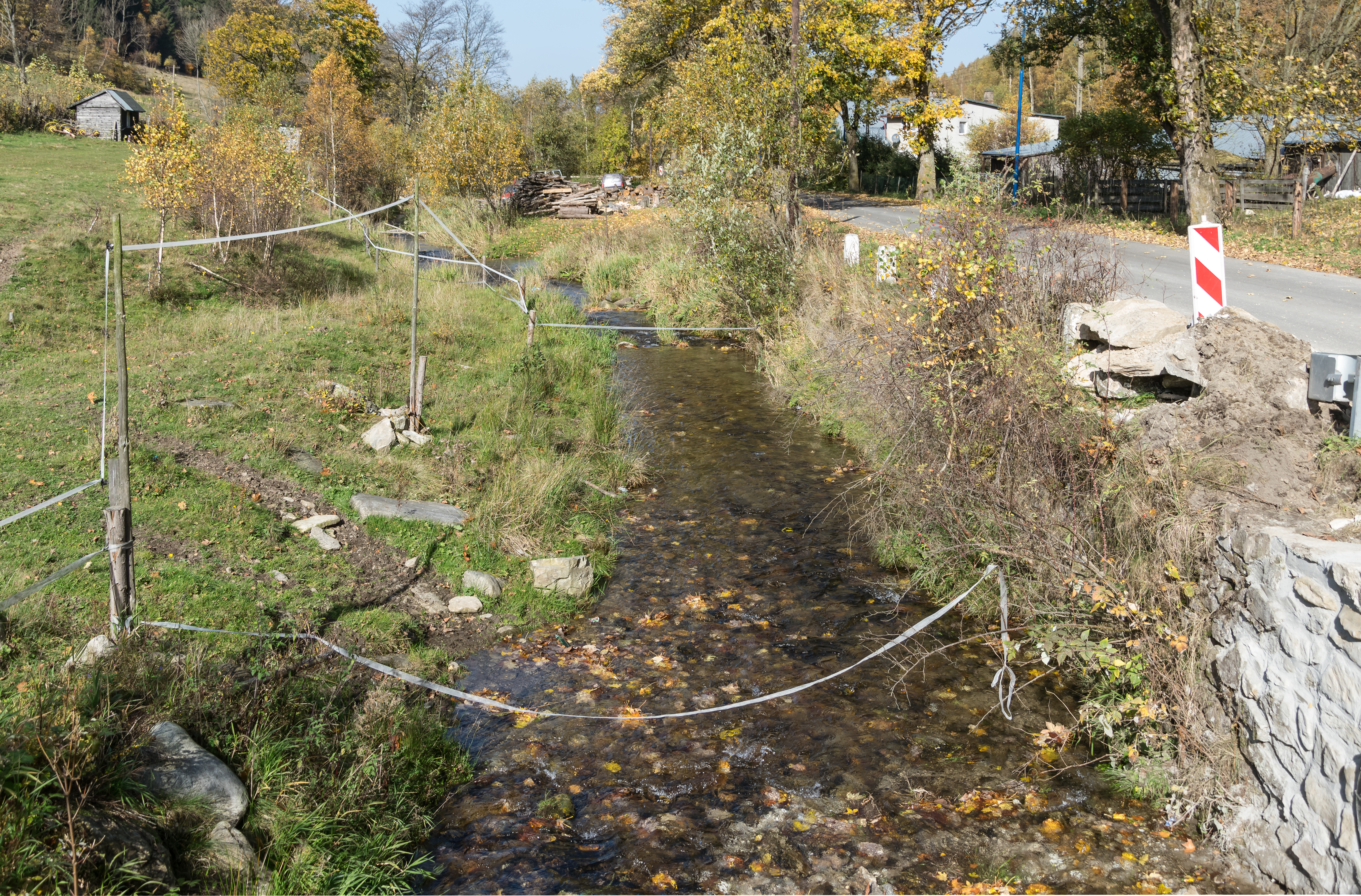 Morawka in Nowa Morawa